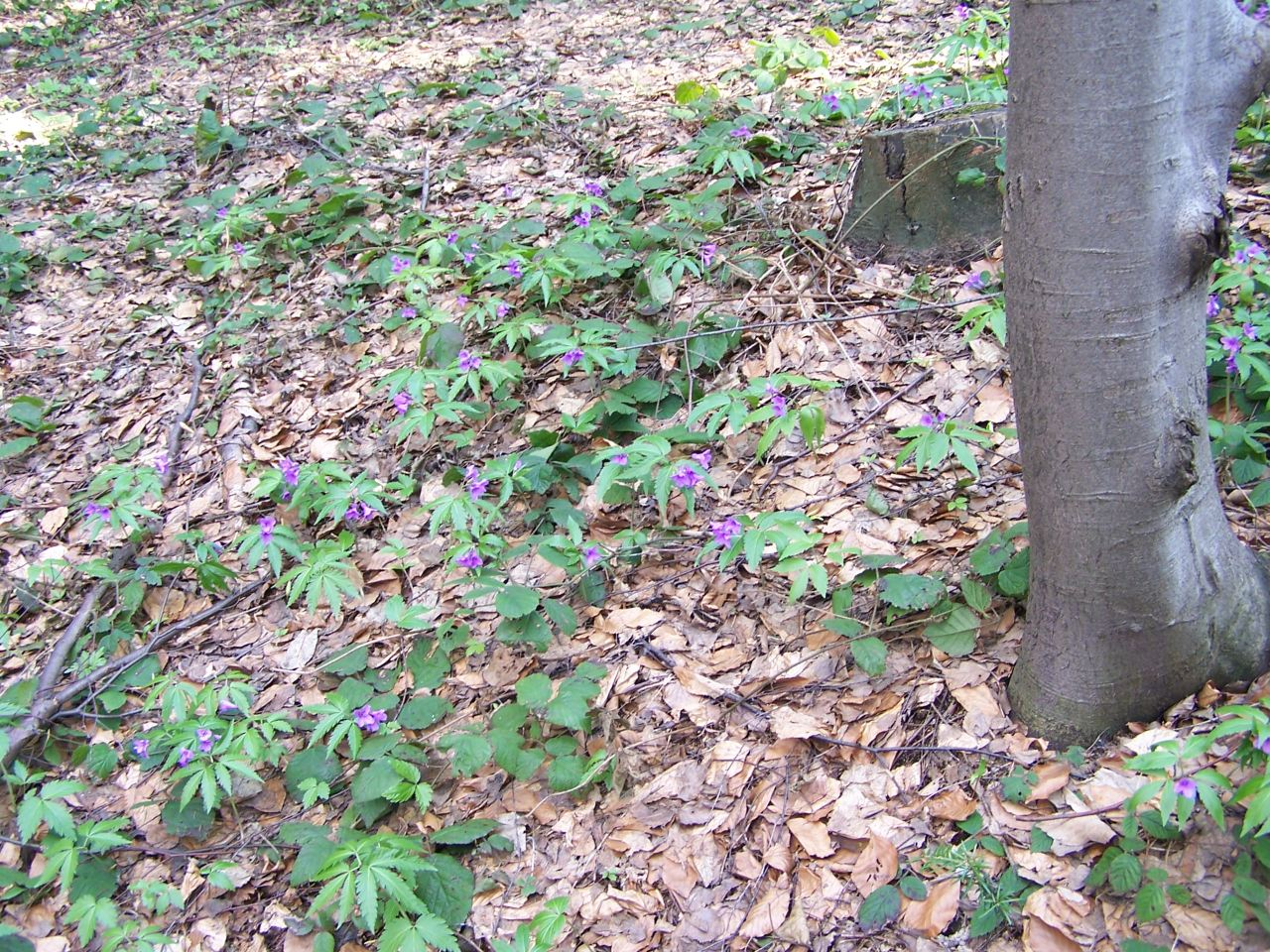 Cardamine glandulosa (family: Brassicaceae) in decidous beech forest, Polish Carpathians.